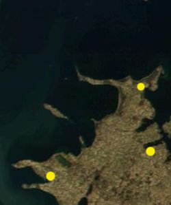 Northwestern Zealand with Sejerø Bay and Samsø. Marking of cities Holbæk, Kalundborg and Nykøbing.